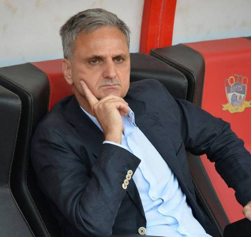 Marian Mihail on the bench of Zakho